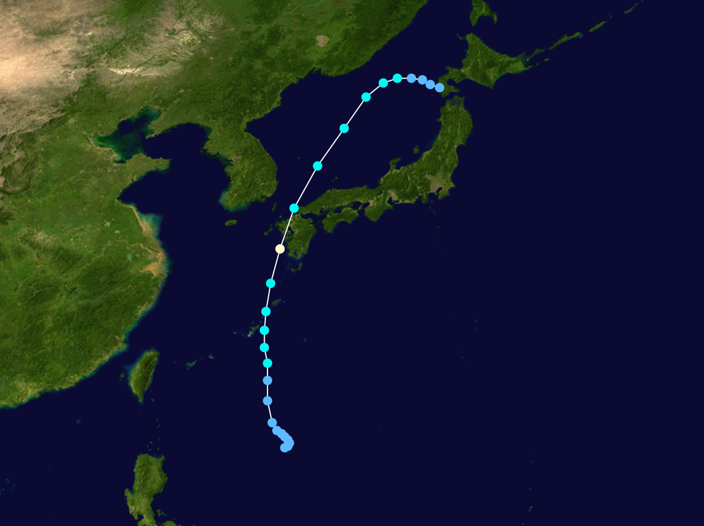 Typhoon Percy 1993 track. Uses the color scheme from the Saffir-Simpson Hurricane Scale.